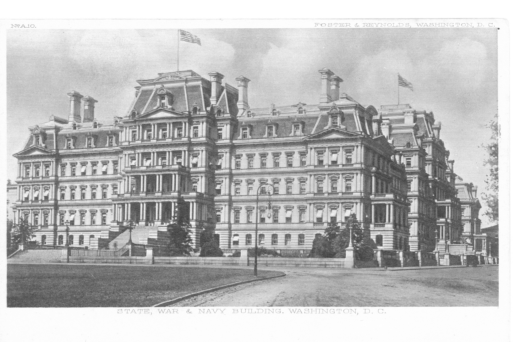 Eisenhower Executive Office Building